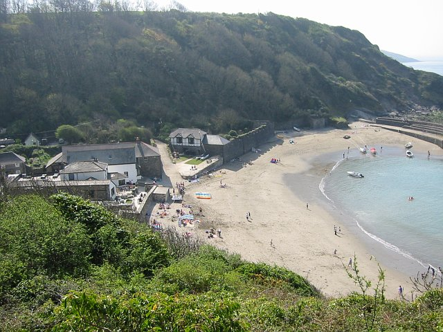 Polkerris viewed from the cliff path, looking south. For more information, see Wikipedia article Polkerris.